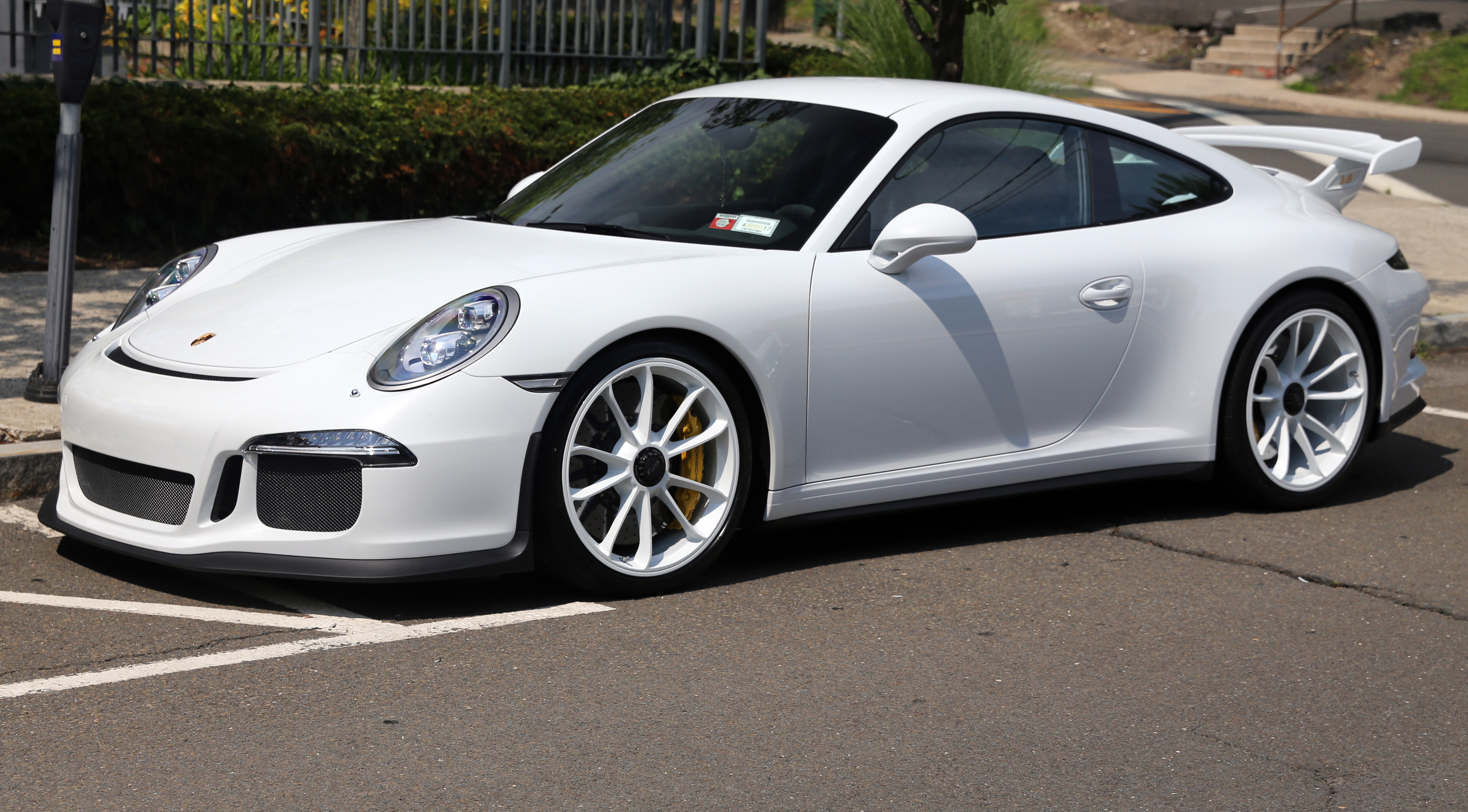 A 2015 Porsche 911 GT3 (991, 3.8-litre and a 7-speed PDK transmission). This example also has ceramic brakes and an enlarged fuel tank.